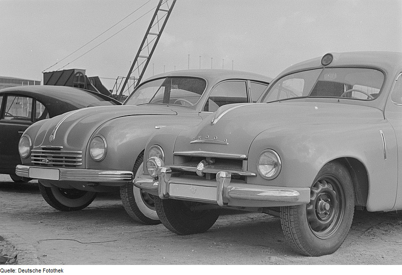 Škoda 1200 STW (ambulance) and Tatra T 600 "Tatraplan"